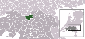 Location of 's-Hertogenbosch